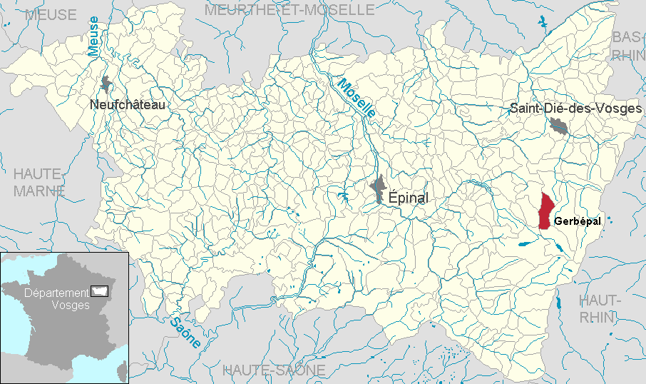 Gerbépal in the department of Vosges, Lorraine, France